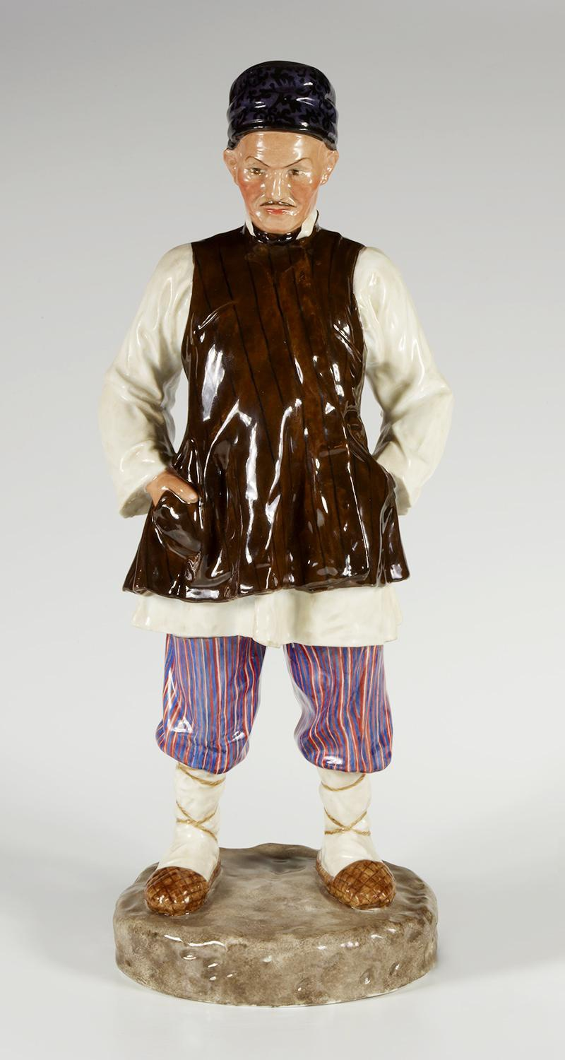 St.Petersburg. The Museum of the Imperial Porcelain Factory. Sculptures from the series "Peoples of Russia." "Great Russian Ryazan Governorate" (center). Models by P.P. Kamensky (1858-1922). Imperial Porcelain Factory, Russia. 1907-1917 gg. Porcelain, polychrome overglaze painting, gilding, silvering, platinum lustre, tooled.